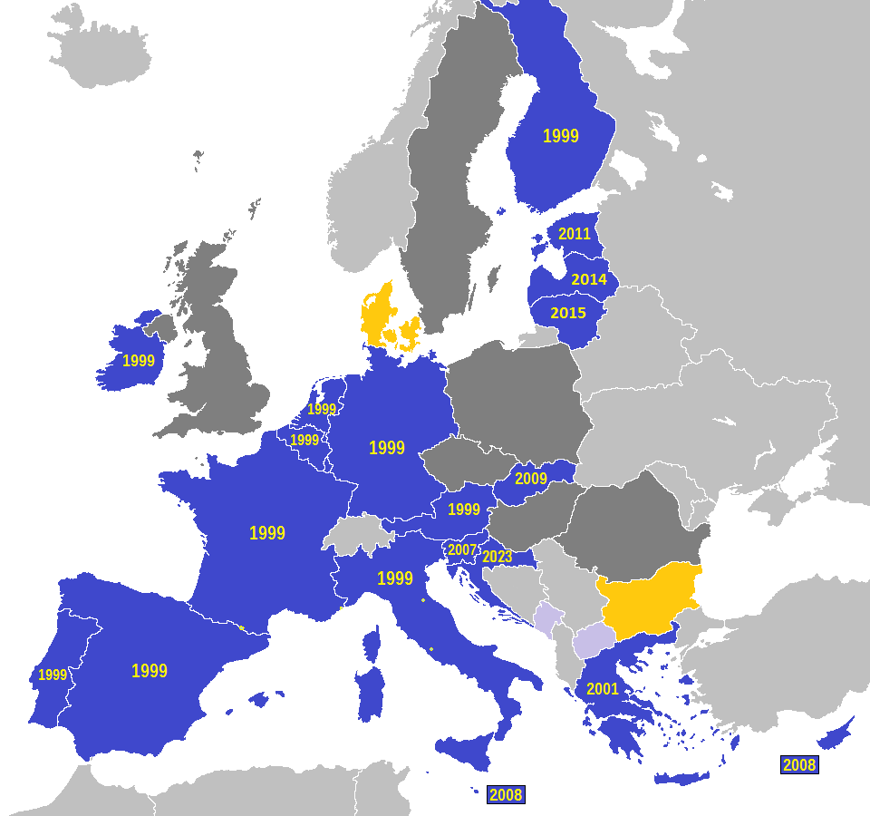 Map of eurozone with the years of accession